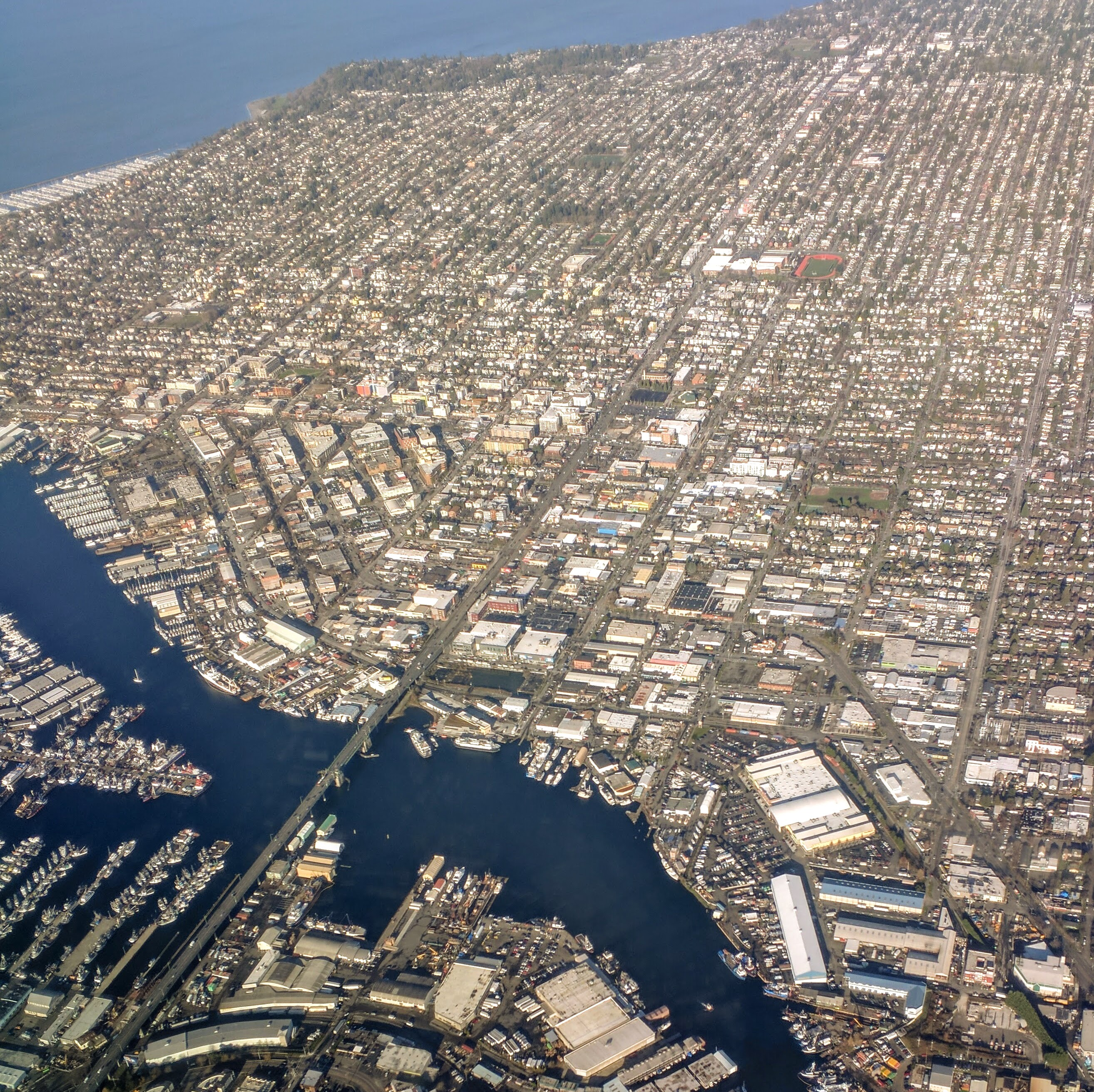 Aerial view of Ballard, the Seattle neighborhood to the north of the Lake Washington Ship Canal, which is also pictured here.